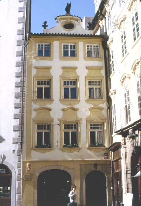 Myslivecek house, Melantrichova Street, Prague